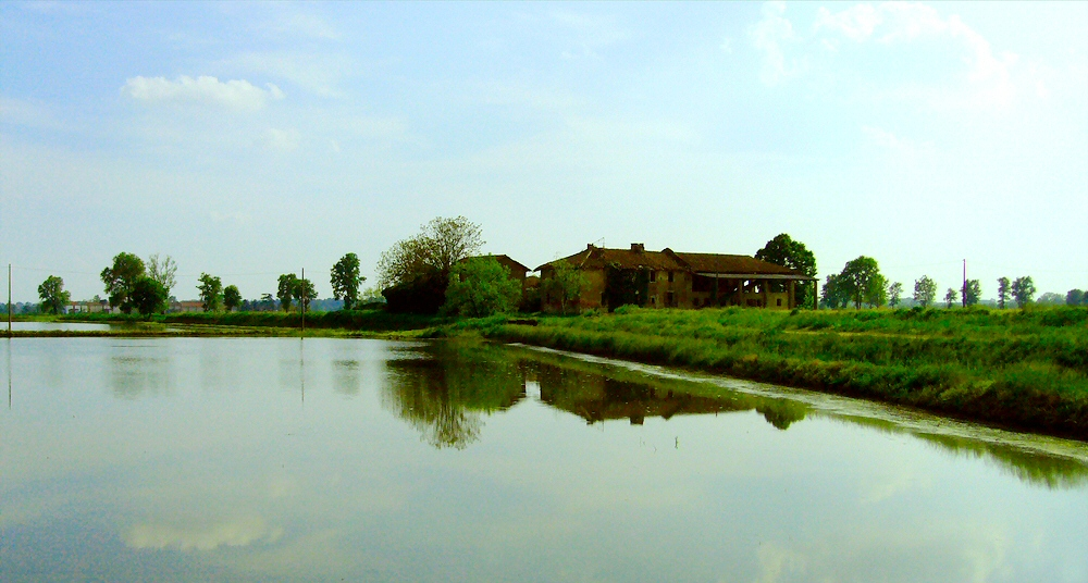 Paddy fields near Vigevano, province of Pavia, Lombardy, Italy